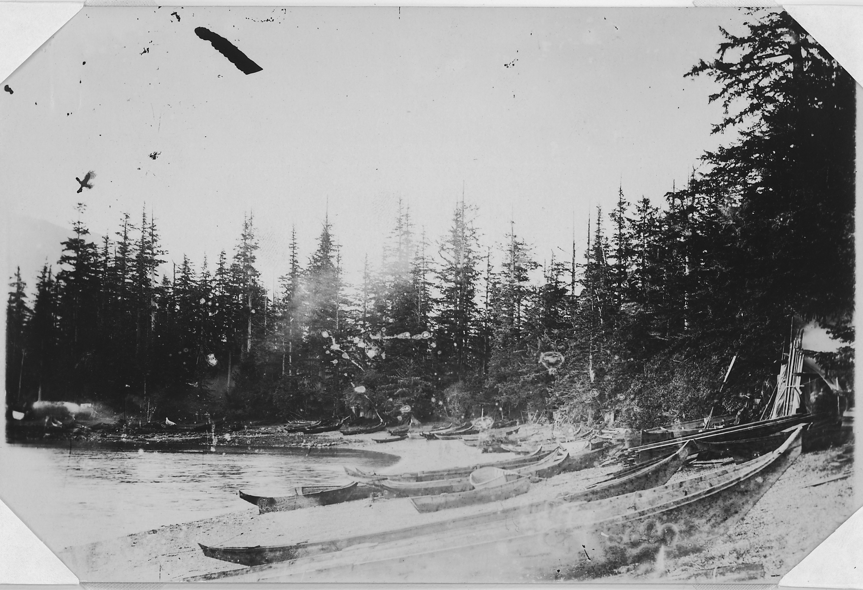 Scope and content: On Back of photo: "No. 2 . The x in photo no. 1 is over the same tree that is marked with x in no. 2 and where the canoes are, is where Mr. Rod Davis has his boat building shop today. The canoes are those that were used to bring the people over form B.C. Taken by J.D. Bluett-Duncan 1887. The trees show how wooded the present town sight of Metlakahtla was when the people first arrived.